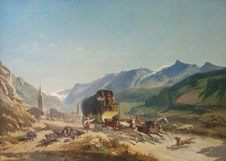 Sight of a stagecoach, linking cities of Turin and Chambéry during the 19th century, here leaving the village of Lanslebourg (today in Savoie, France).